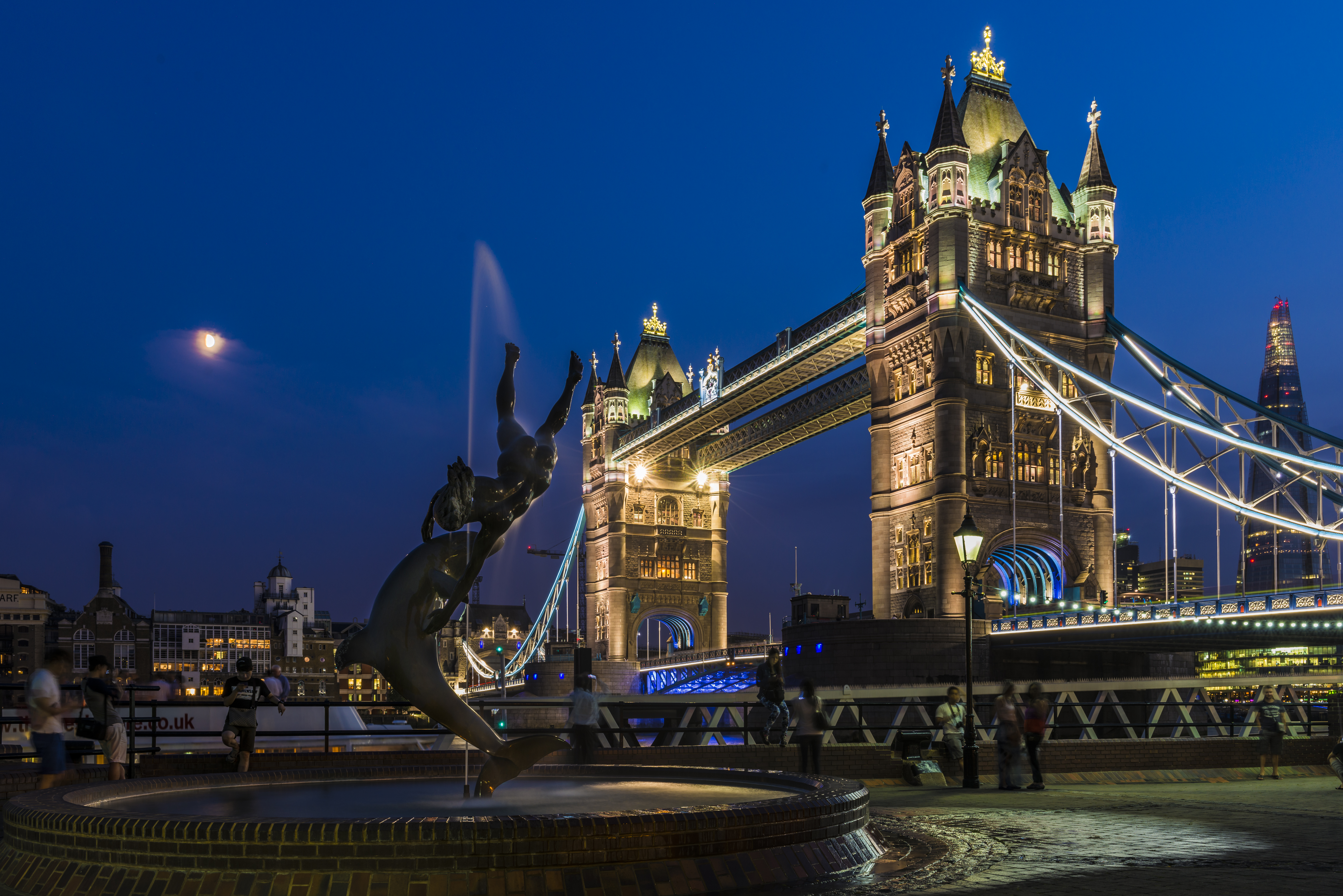 London Tower Bridge